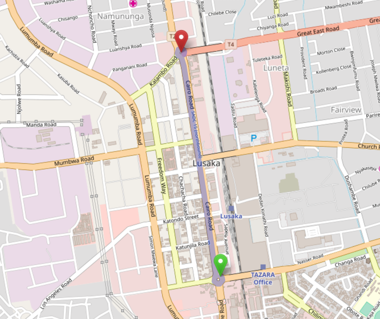 Map showing Cairo Road in Lusaka, Zambia This map of Zambia was created from OpenStreetMap project data, collected by the community. This map may be incomplete, and may contain errors. Don't rely solely on it for navigation.